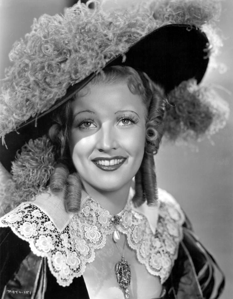 Margot Grahame as Milady de Winter in The Three Musketeers - publicity still